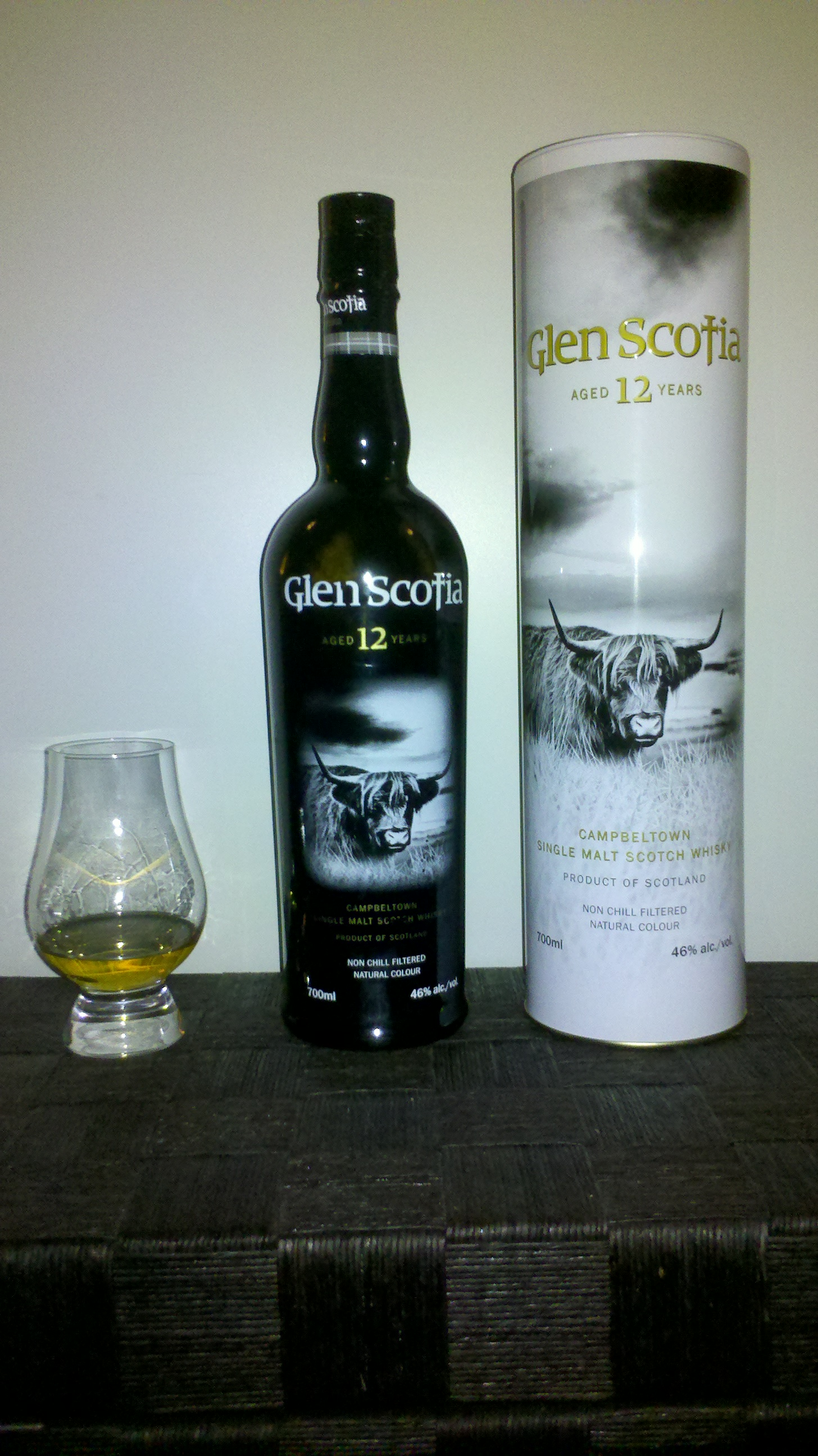 Glen Scotia 12 new